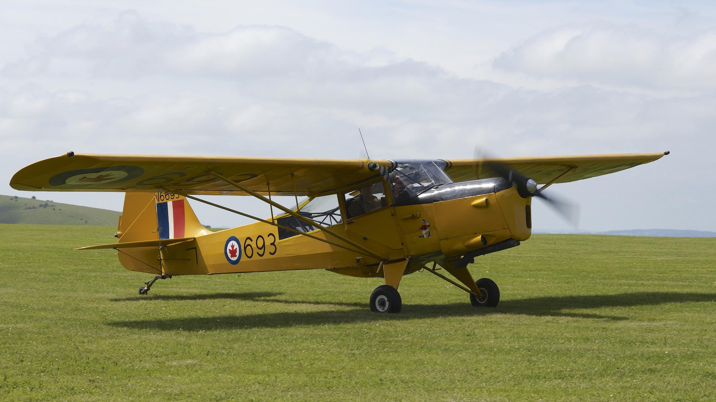 The busiest day ever in the history of this charming airfield. A hot sunny day was the icing on the cake!